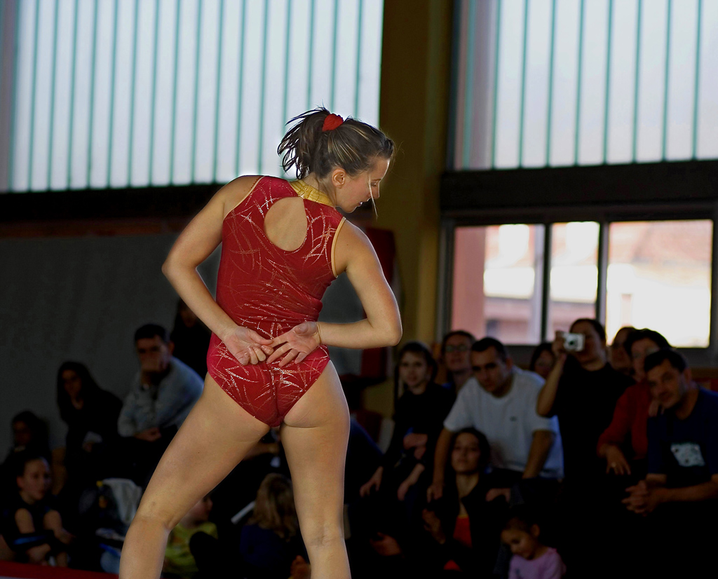 Gymnast waiting to start on floor.